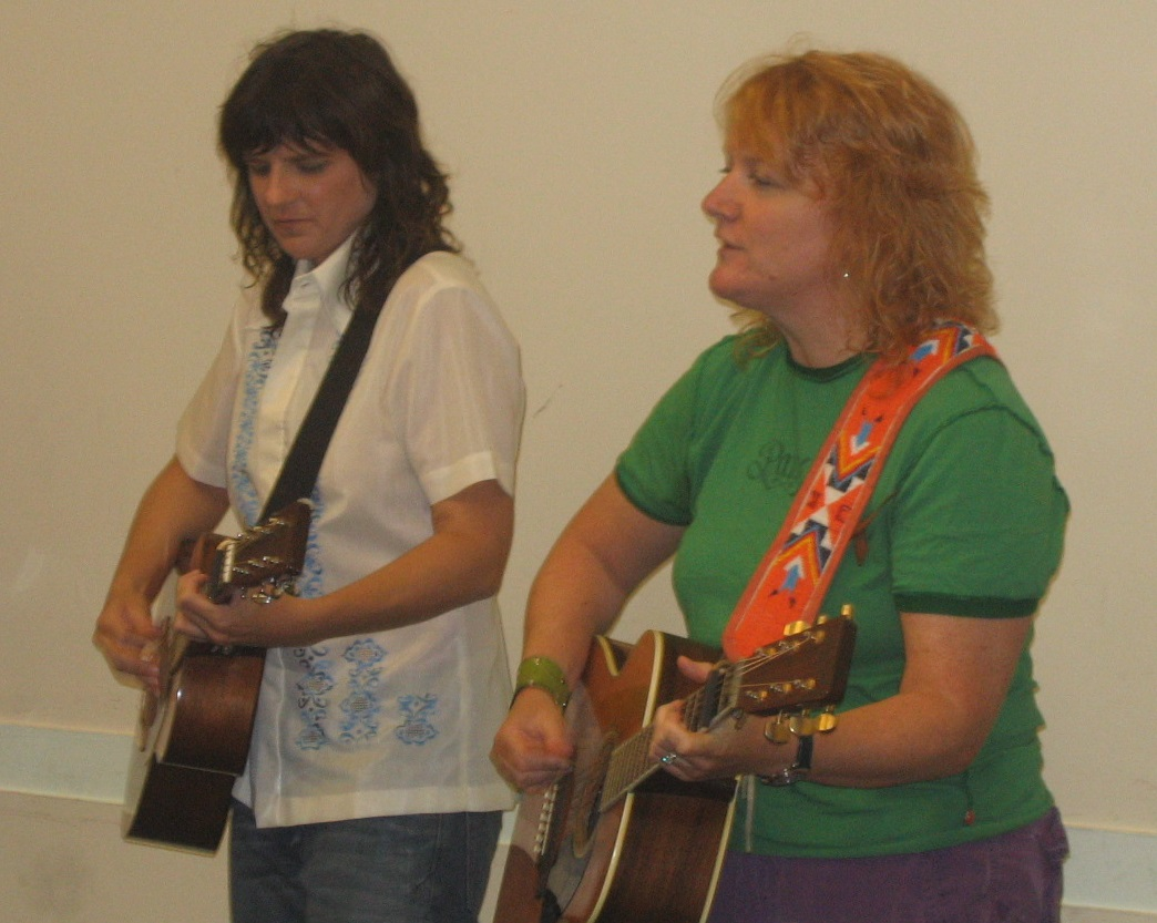 Indigo Girls at an event about "Bill of Media Rights"